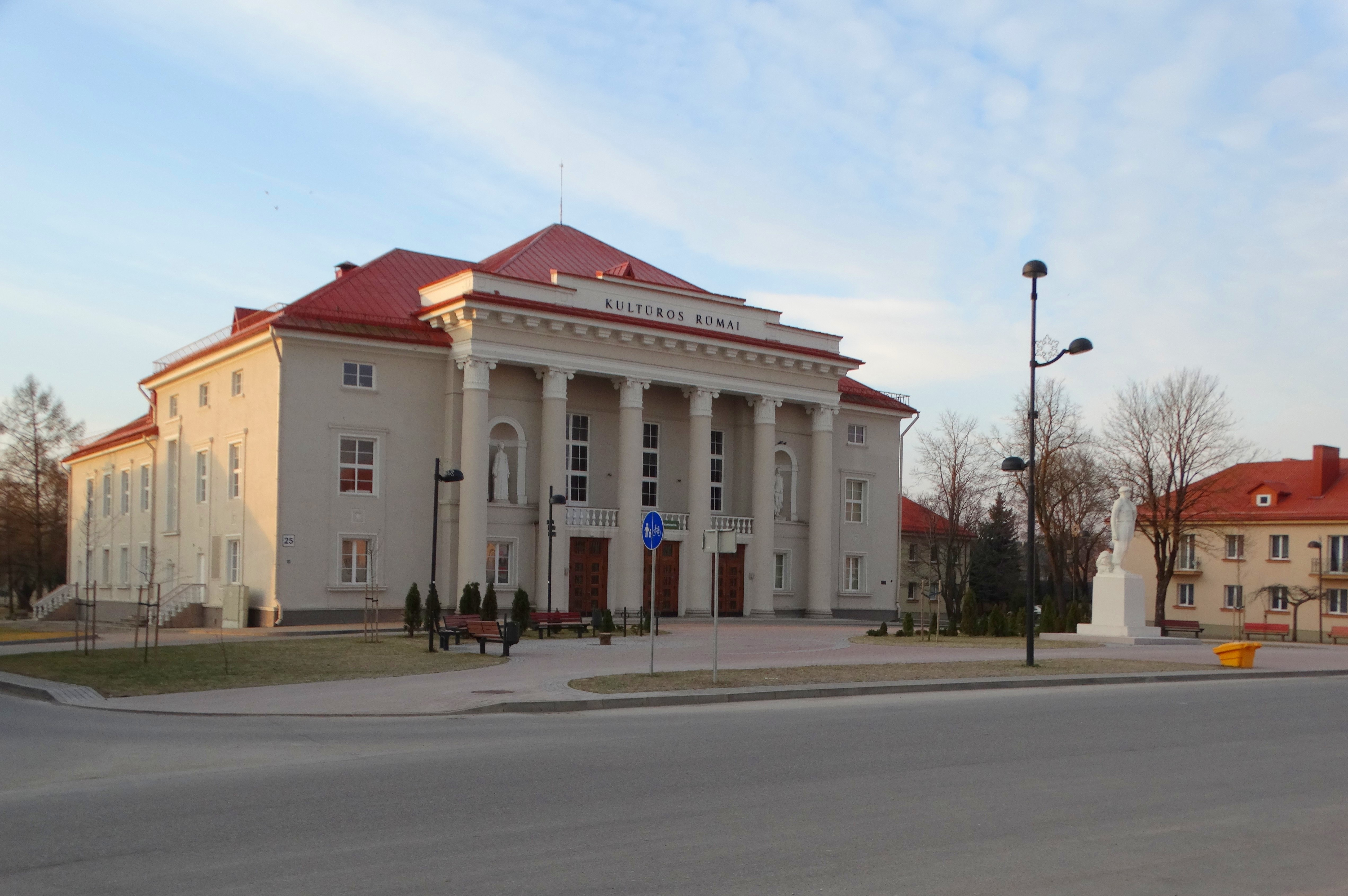 Palace of culture, Naujoji Akmenė, Lithuania